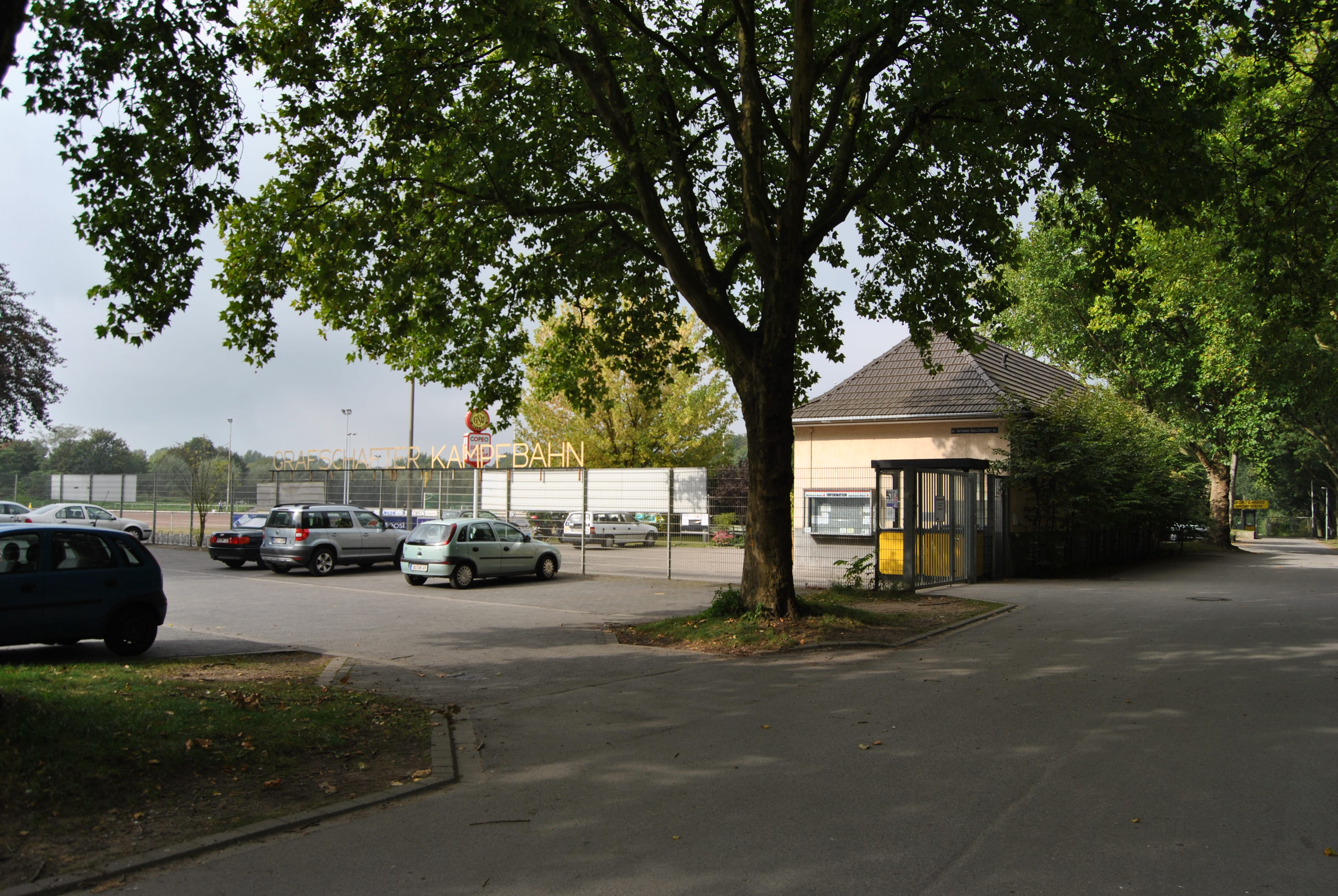 Moers (North Rhine-Westphalia, Germany) – stadium Grafschafter Kampfbahn This photograph was taken with a Nikon D3000.